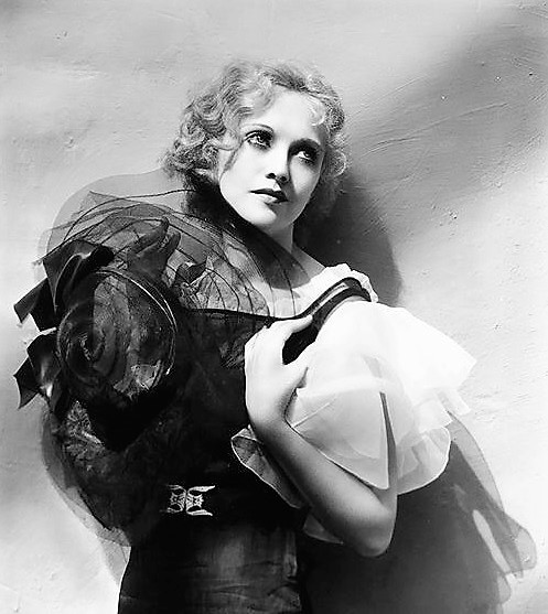 Sheila Terry